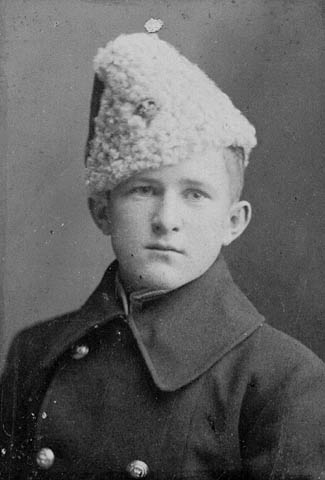 William A. "Billy" Bishop as a cadet at the Royal Military College of Canada in Kingston